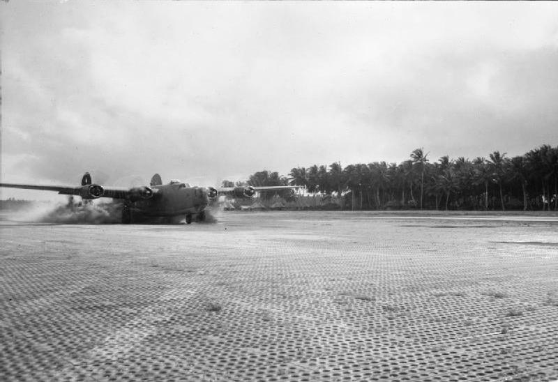 Royal Air Force Operations in the Far East, 1941-1945 Consolidated Liberator B Mark VI of No. 99 Squadron RAF throws up spray from recent rain while taking off on its last bombing mission of the war from the recently laid PSP airstrip on Brown's West Island, Cocos Islands.